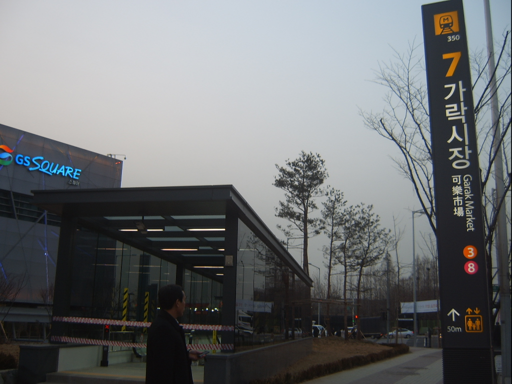 Garak station exit 7